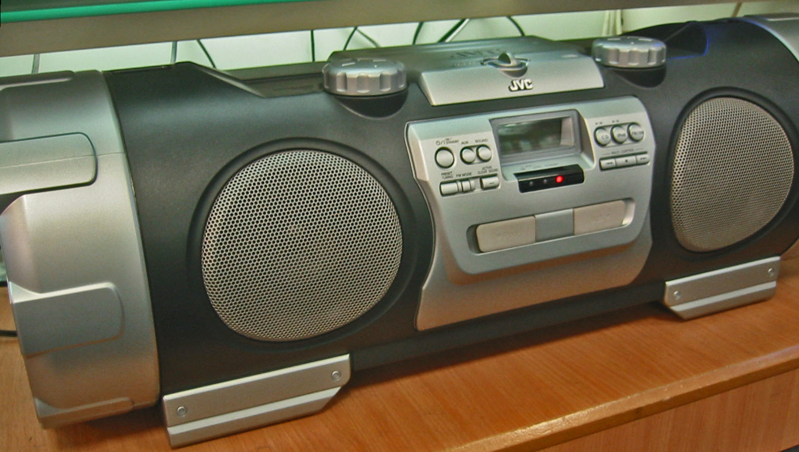 beats e'thing to a pulp with fifty watts per channel accepts most media even though there is s'thing new from B&W zeppelin 100wrms but is same price [expected]